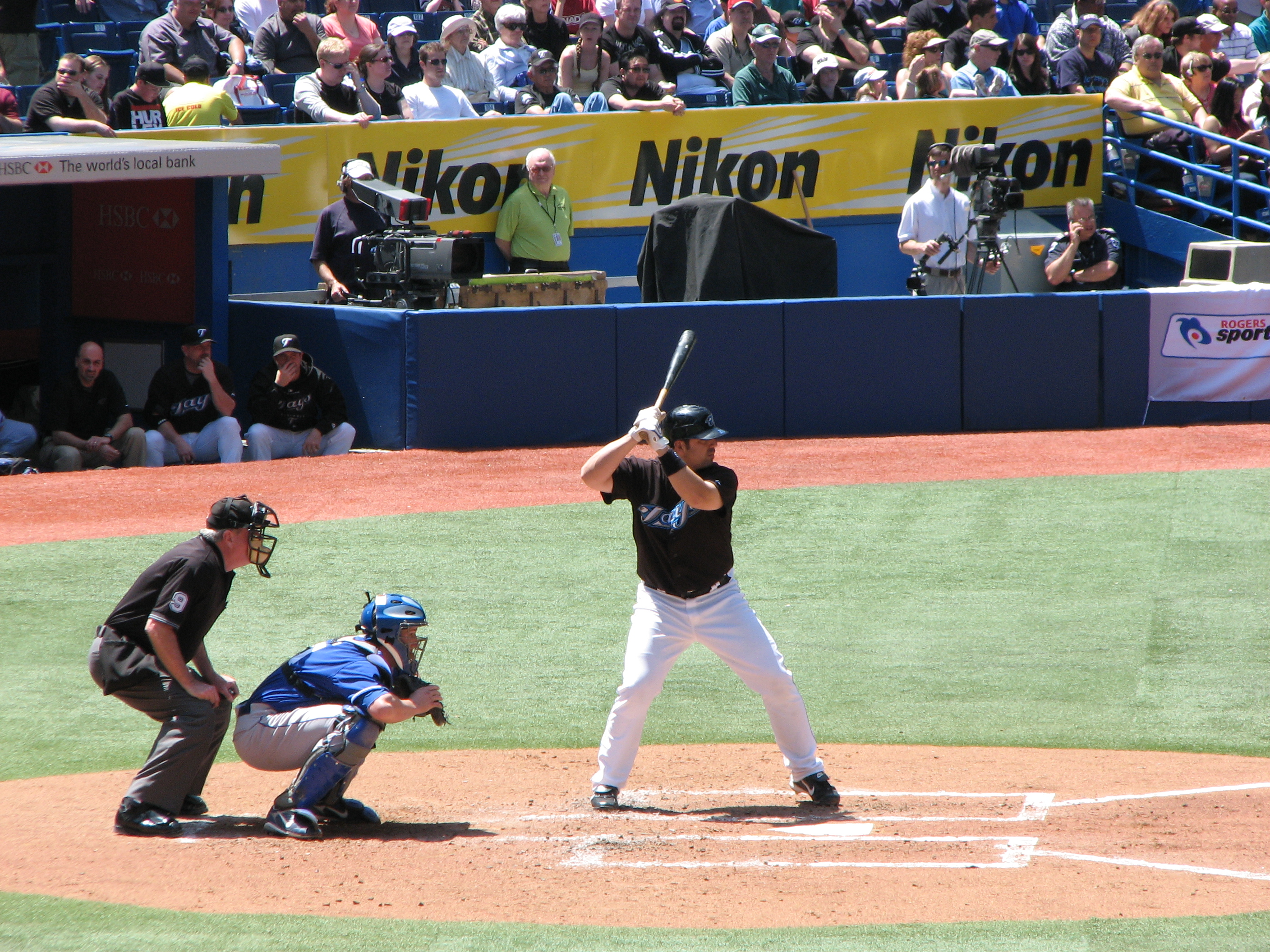 Blue Jays vs. Royals